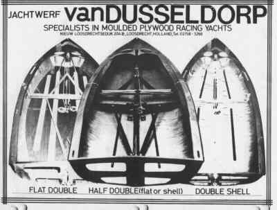 Advertisement of "van Dusseldorp" for wooden Flying Junior Boats